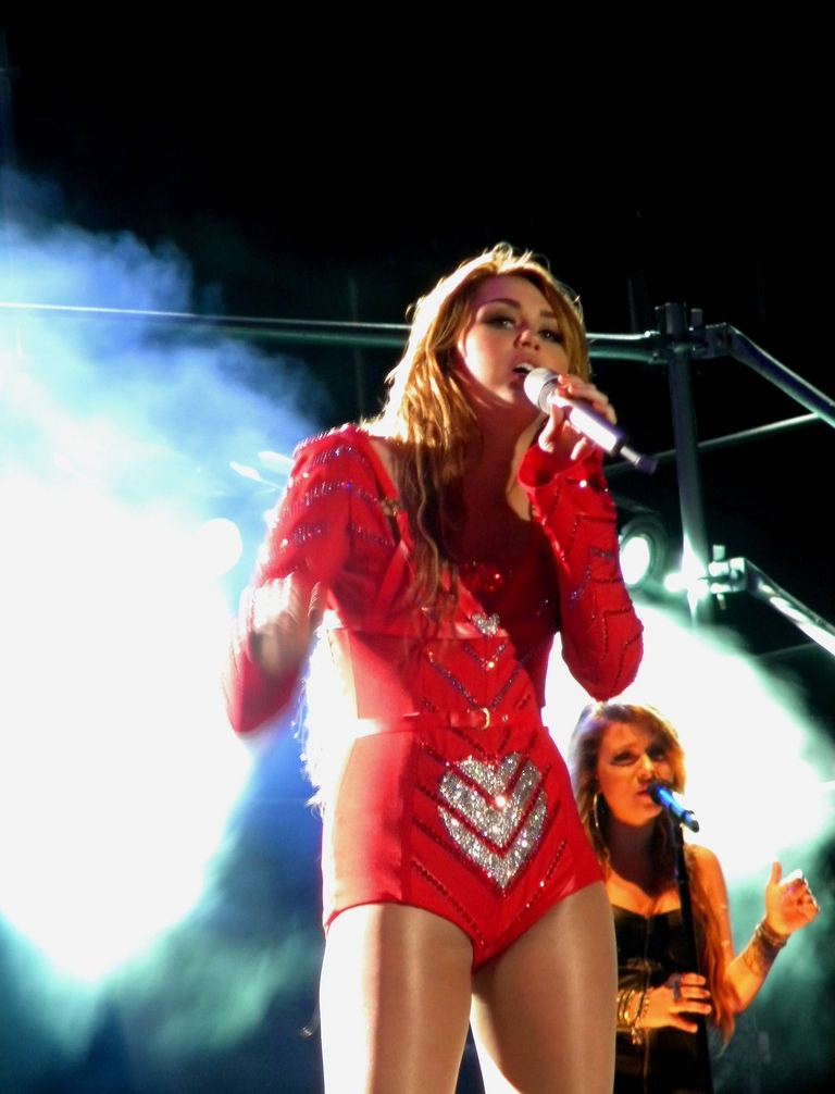 Pop singer Miley Cyrus performing "Who Owns My Heart" in São Paulo, Brazil as part of her Gypsy Heart Tour in 2011.